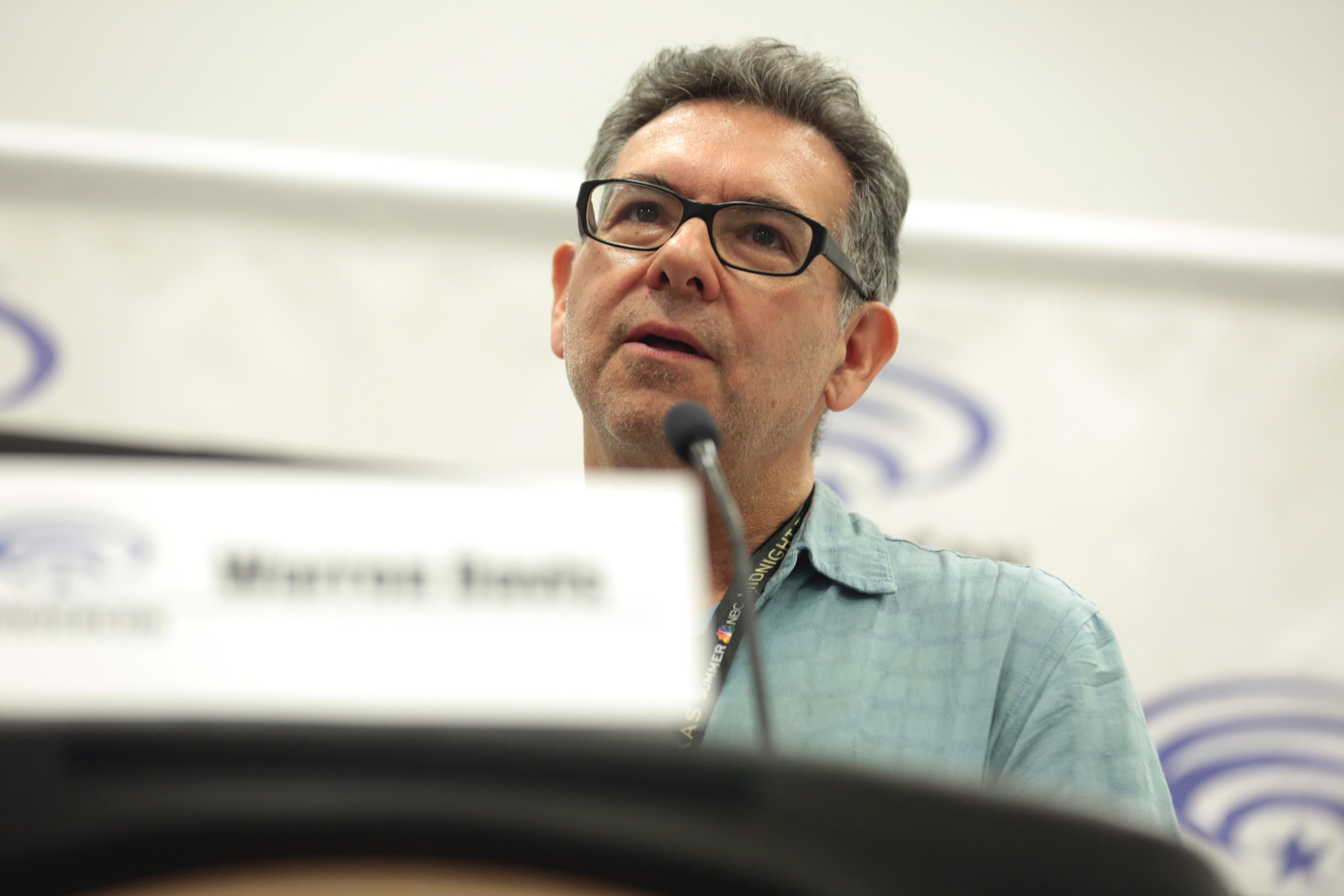 Warren Davis speaking at the 2017 WonderCon in Anaheim, California.